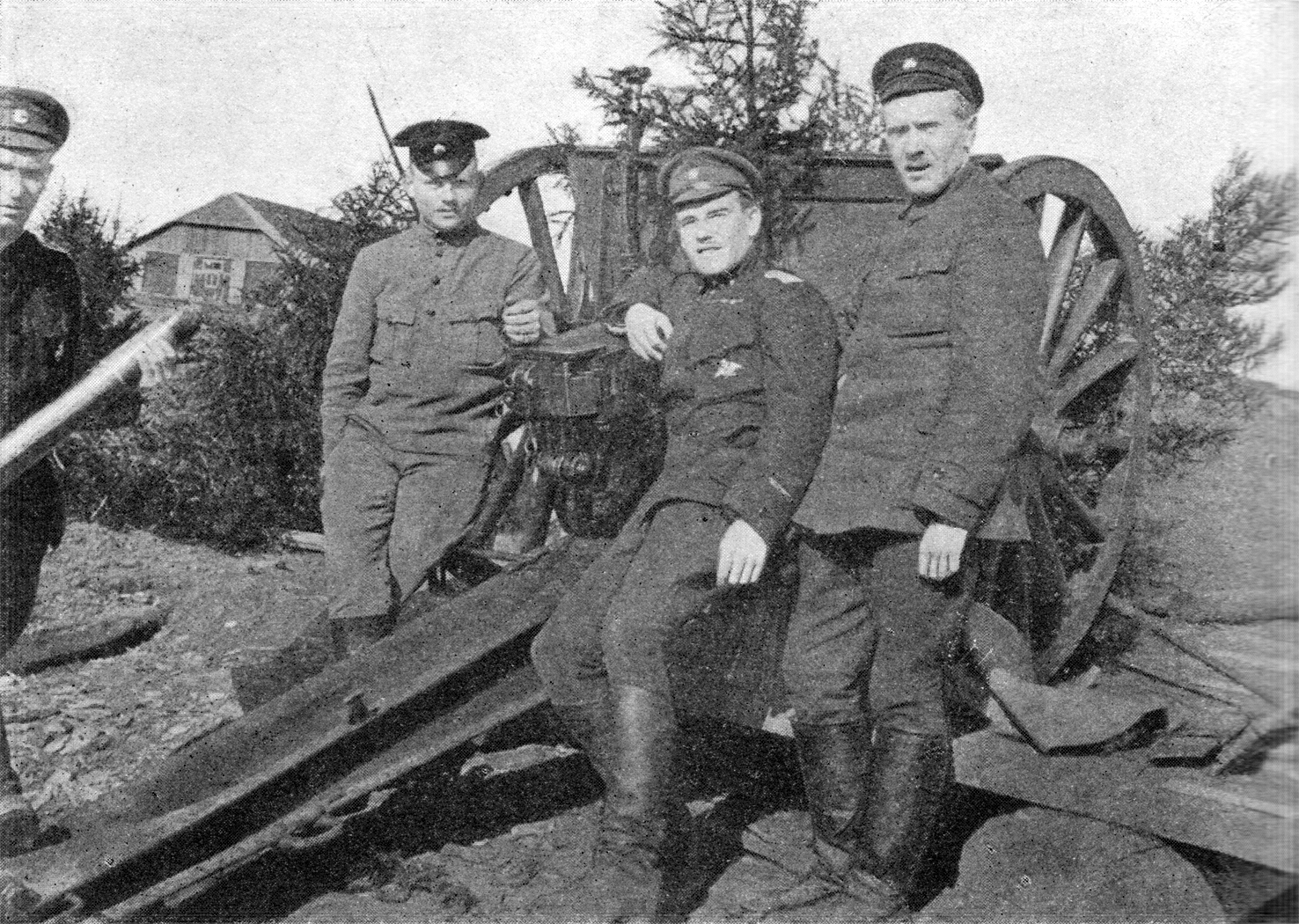 A field gun from Battery No 2 of the 1st Artillery Regiment in position near Väike-Soldina manor. Commander of the regiment Captain Hugo Kauler second from the right.